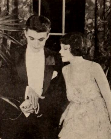 Still from the American comedy film Cinderella's Twin (1920) with Wallace MacDonald and Viola Dana, on page 72 of the January 22, 1921 Exhibitors Herald.